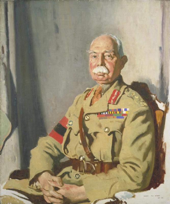 General Sir Herbert C O Plumer, GCMG, GCVO, KCB, painted at Headquarters, Second Army.